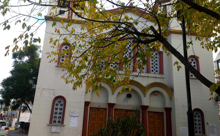 daniil